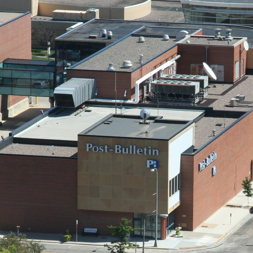 The physical plant of the Rochester Post-Bulletin, seen from the roof of the Plummer Building in Rochester, Minnesota